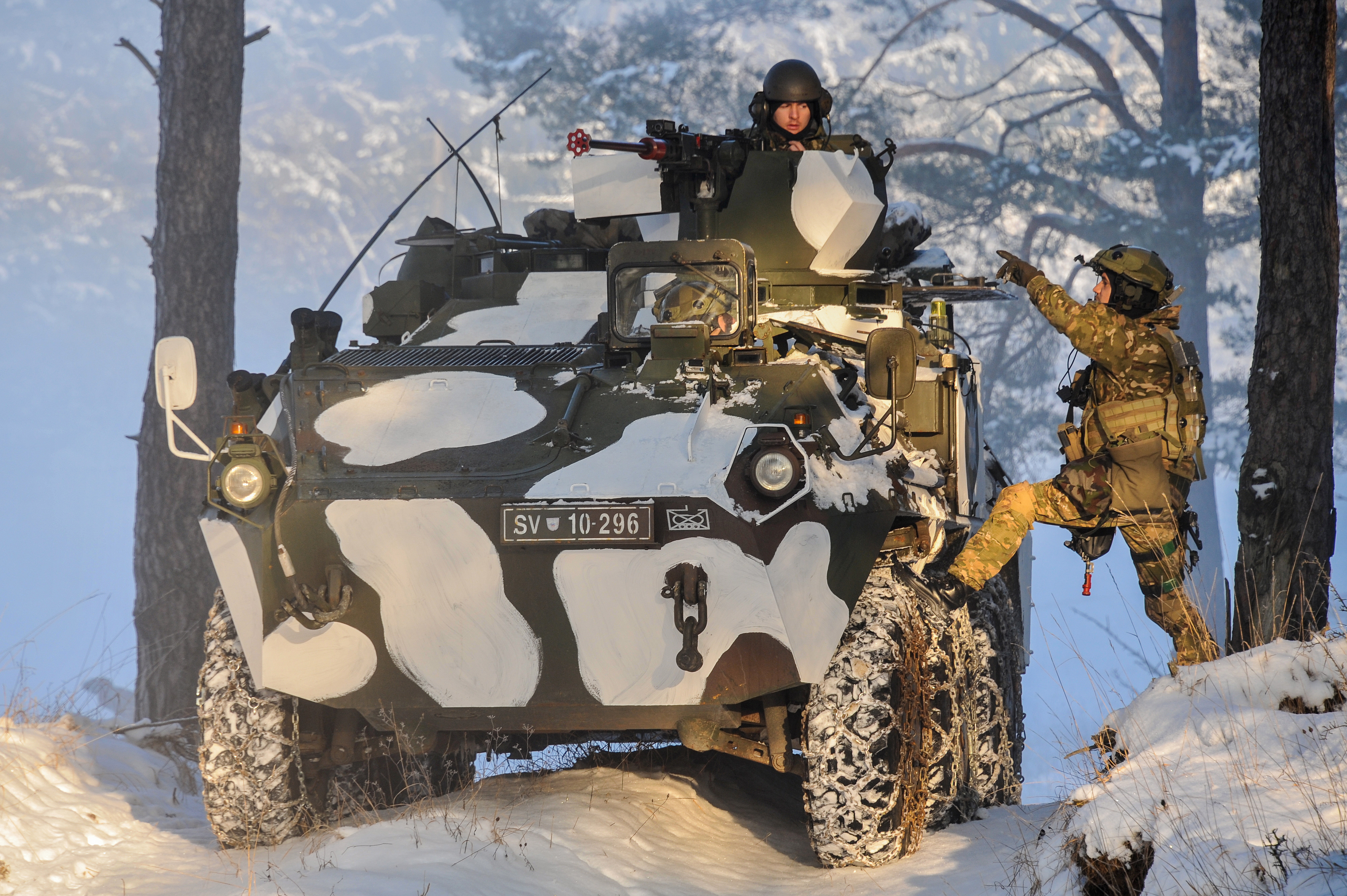 Slovenian soldiers of 3rd Company, 10th Regiment conduct a movement to contact lane using Valuk Light Armored Vehicles during Exercise Allied Spirit IV at the 7th Army Joint Multinational Training Command's Hohenfels Training Area, Germany, Jan. 21, 2016. Exercise Allied Spirit includes more than 2,200 participants from six NATO nations, and exercises tactical interoperability and tests secure communications within Alliance members and partner nations. (U.S. Army photo by Visual Information Specialist Markus Rauchenberger/released)